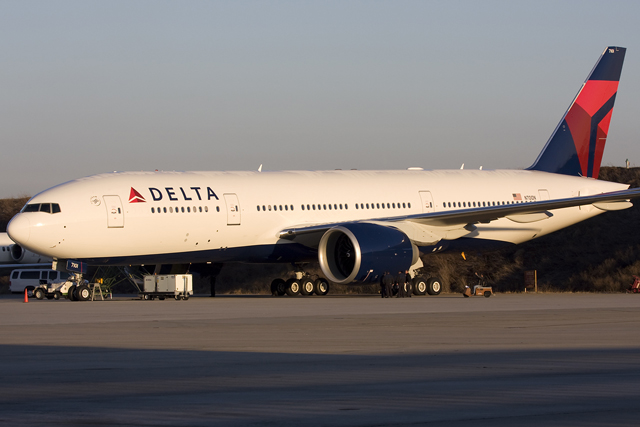 Delta Air Lines' new flagship, the Boeing 777-200LR (N701DN), pictured at the air line's maintenance facility in Atlanta, GA shortly after delivery in early 2008.